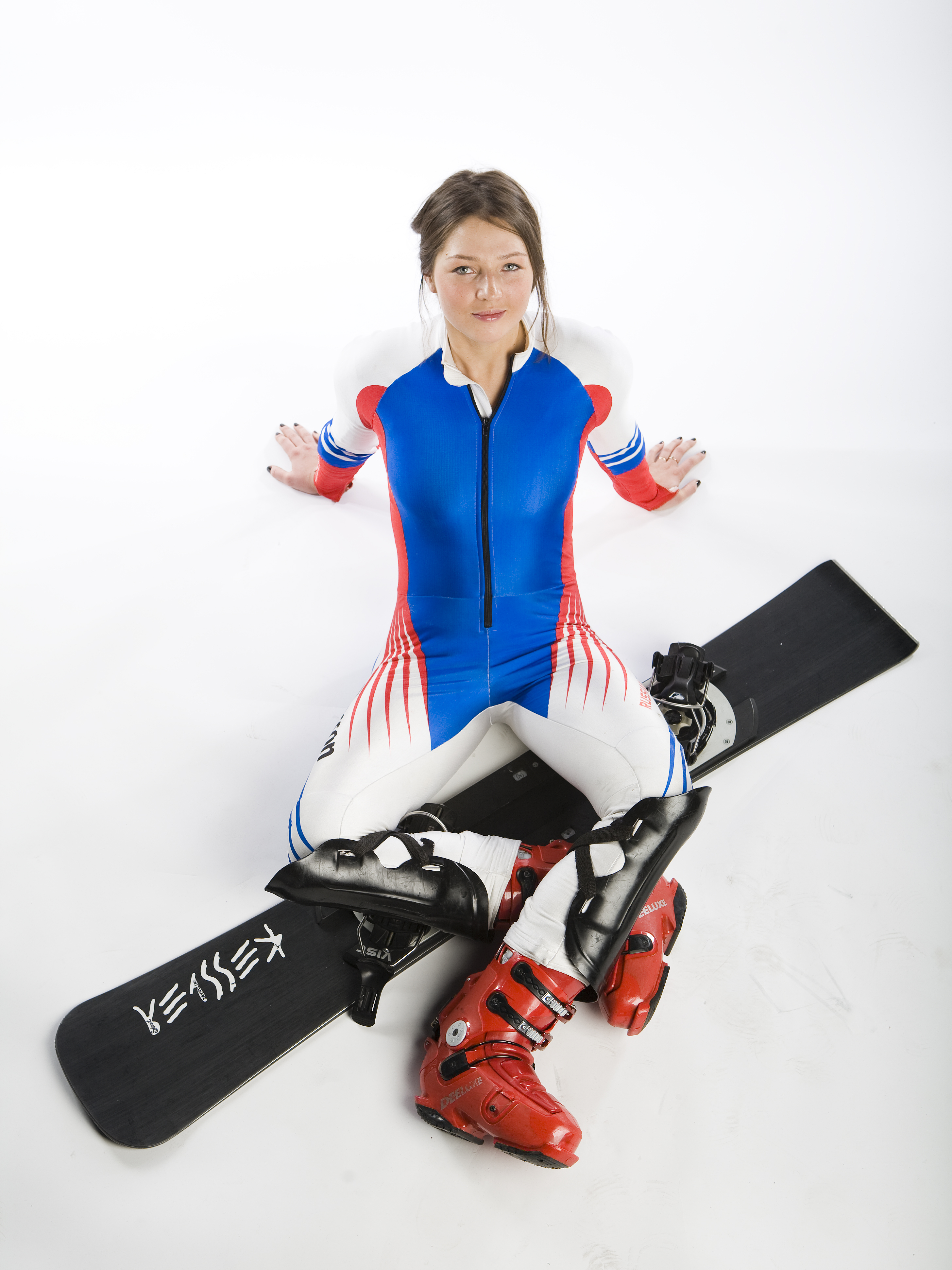 Zavarzina Alena, russian snowboarder